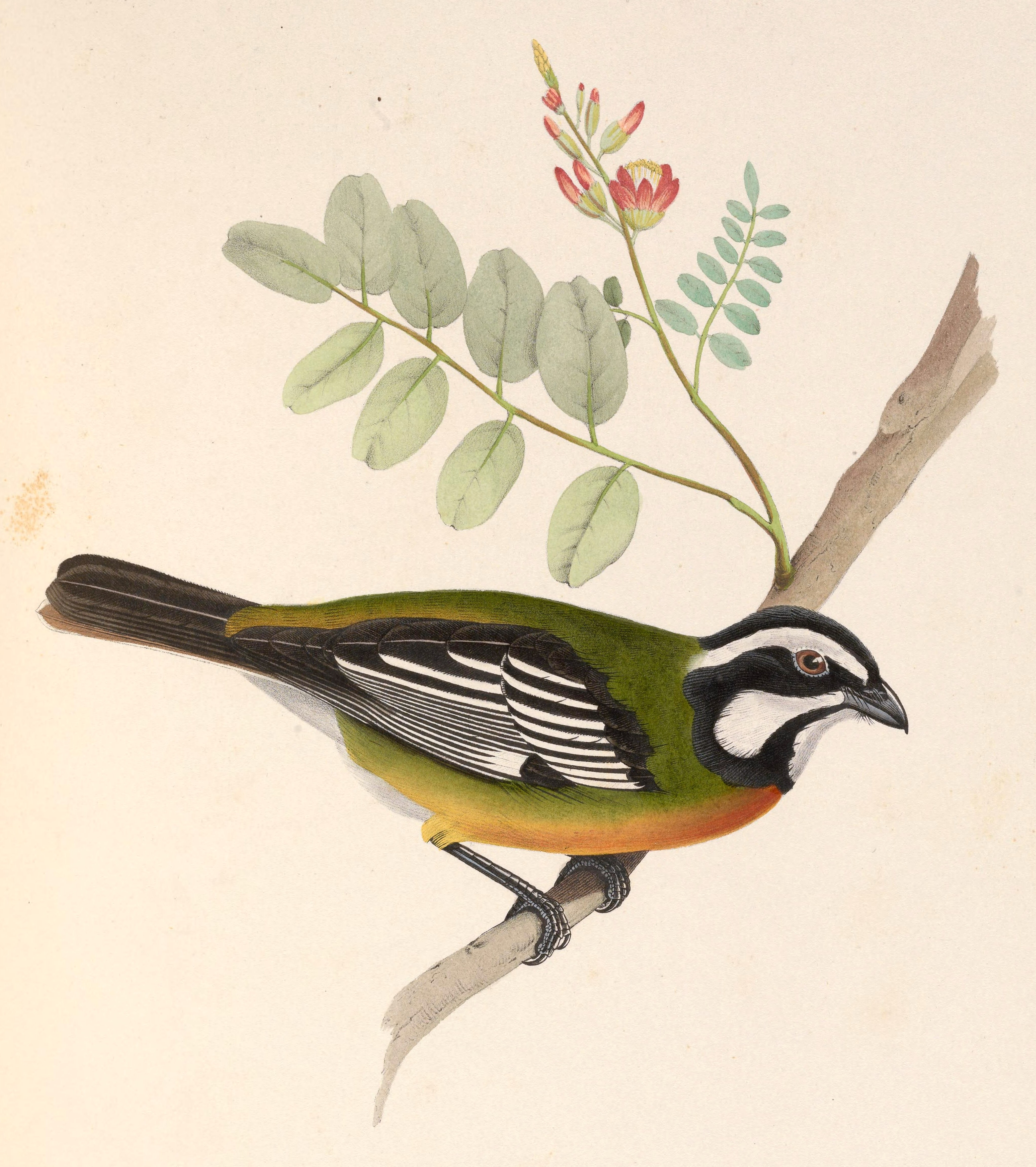 Tanagra zenaides = Spindalis zena (Western Spindalis)